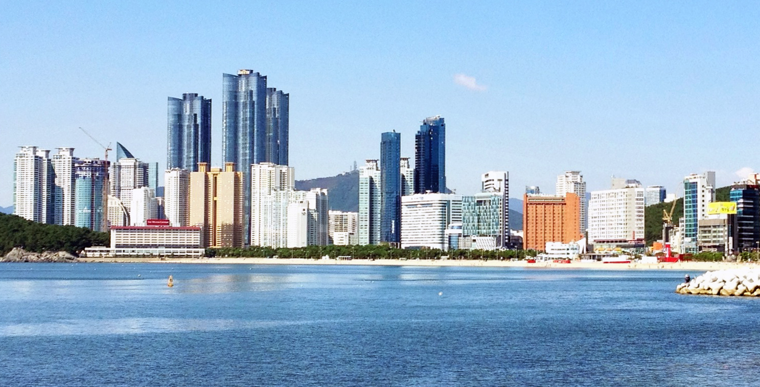 Skyline of Haeundae in Busan, South Korea. Part of photograph from Flickr; author Hajo Schatz; license of CC BY-SA 2.0. This is a part of the original photo, plus additional edits (lighting, cropping, etc.).